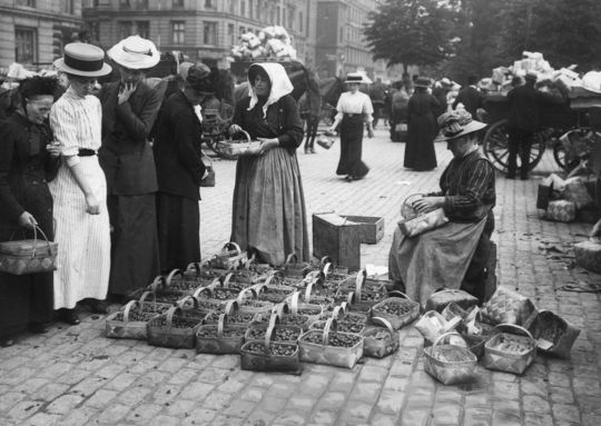 So-called Amagerkoner )"Amager Ladies") selling strawberries at Grønttorvet, now Israels Plads, in Copenhagen, Denmark.